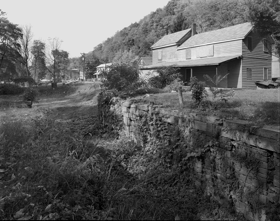 Lock No. 34 on the West Branch Canal at Lockport, Clinton County, Pennsylvania, in the United States. Original number was "HAER PA,18-LOKHA.V,4-4"; original caption was "4. View Northwest, Across Lock, at Lock Keeper's House HAER PA, 18-LOKHA.V,4-4"